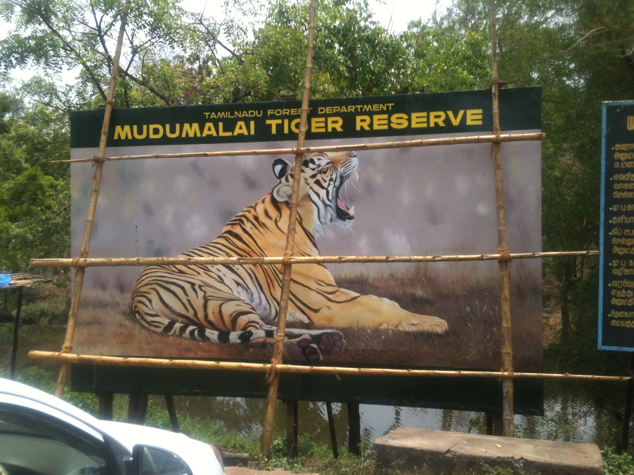 Mudumalai Wildlife Reserve, Nilgiris in Tamil Nadu, India